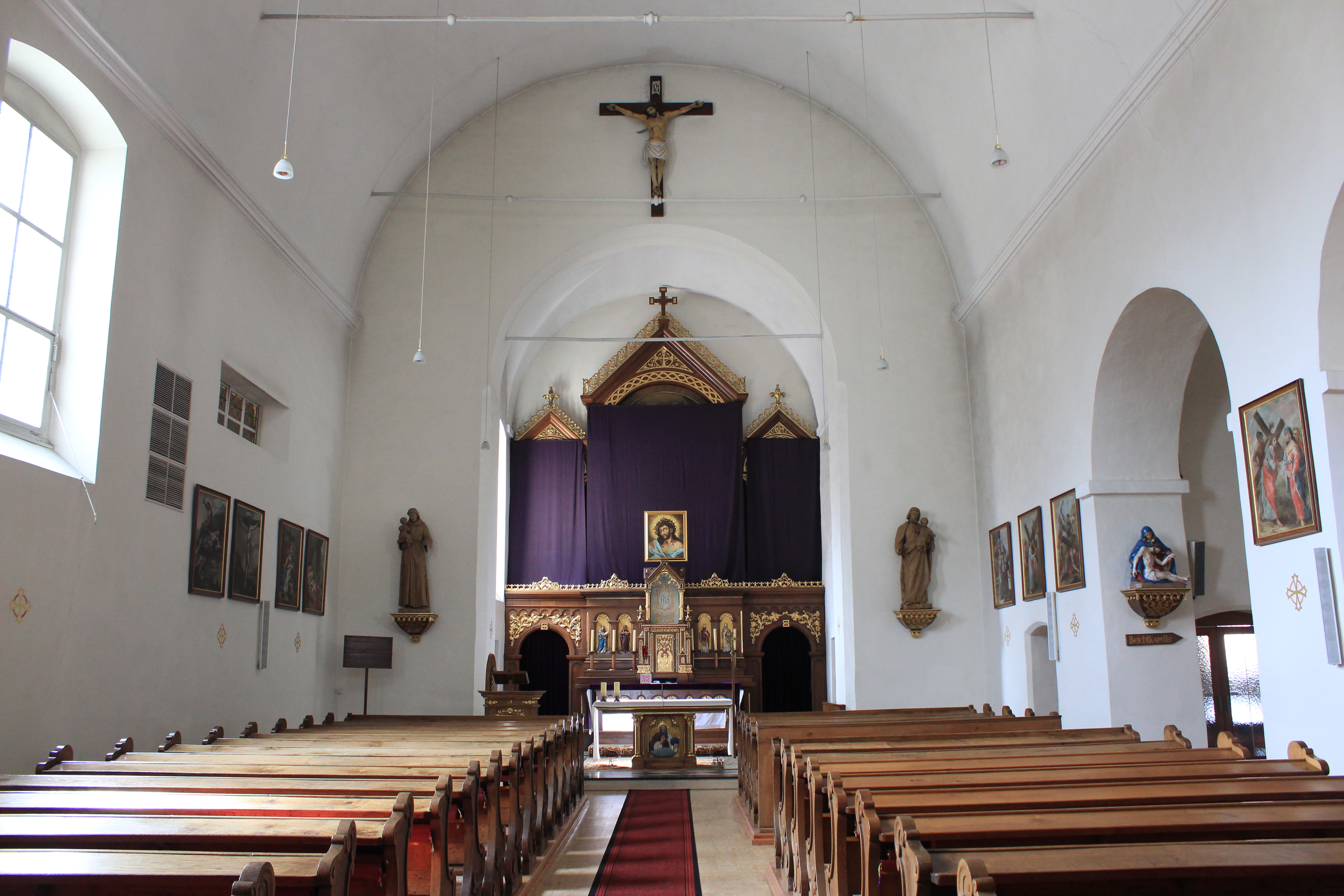 Order of Friars Minor Capuchin-Church in the community of Wolfsberg - Interior